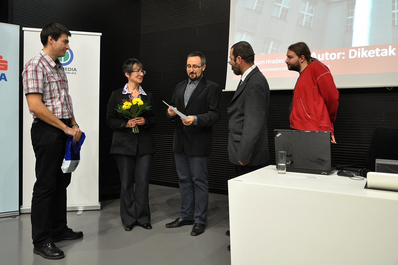 Wiki Loves Monuments 2012 Czech republic award ceremony. Věra Kučová, representant of the National Heritage Institute, and Petr Vilgus present an award to the winner User:Diketak.